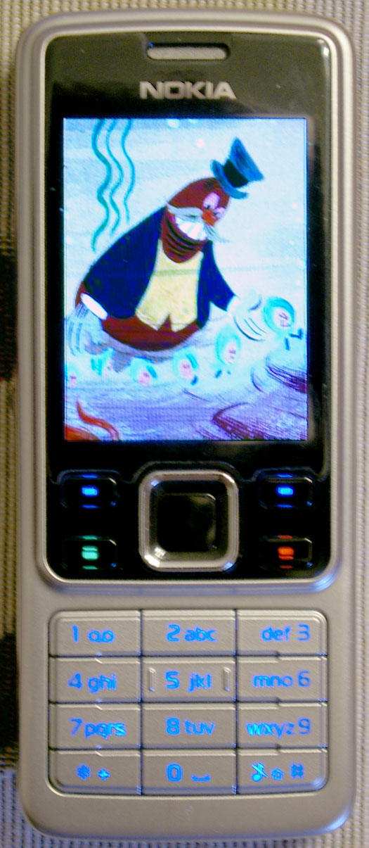 Image of Nokia 6301b in screensaver mode.